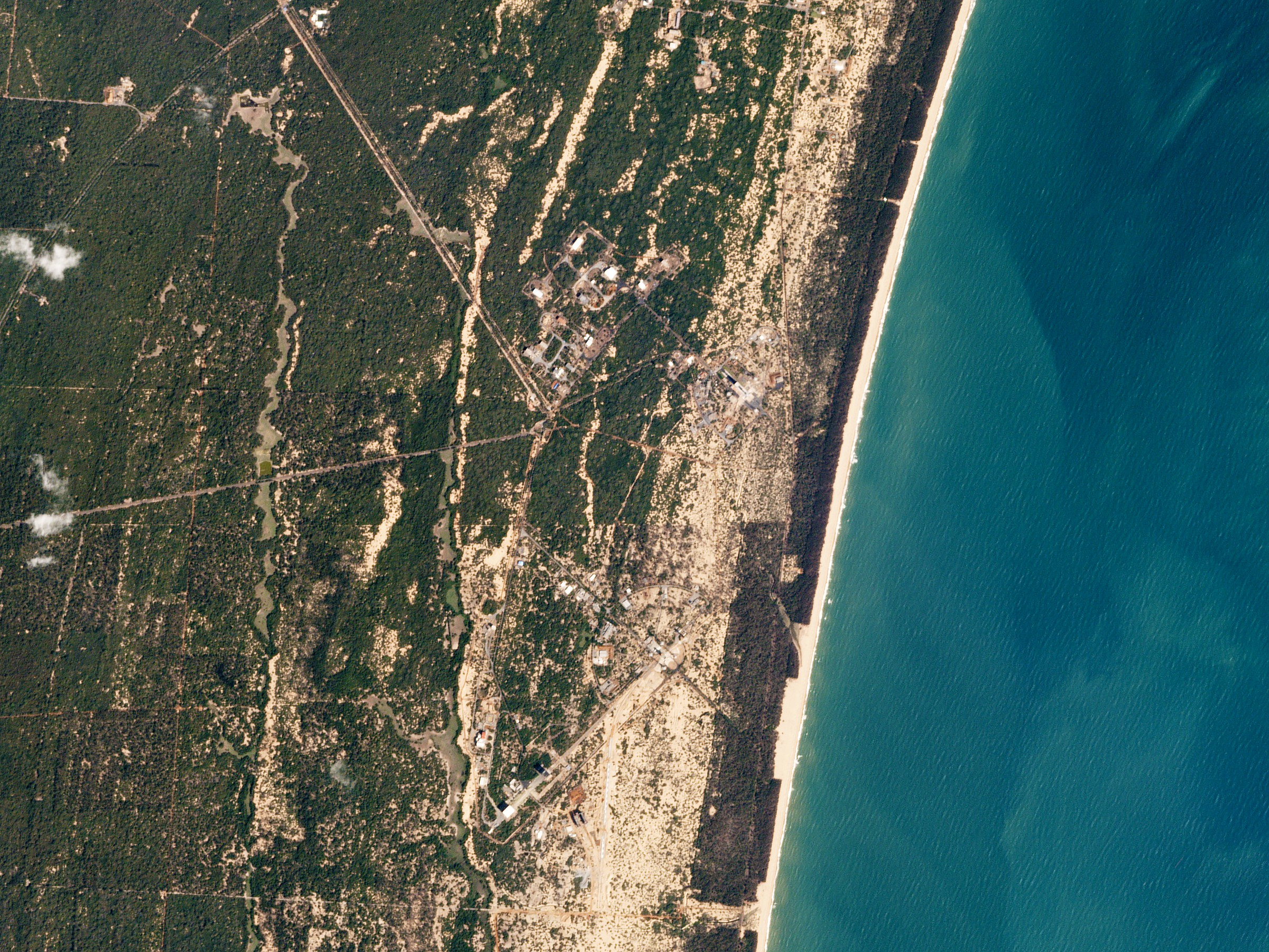 Satish Dhawan Space Centre, India February 13, 2017 The Satish Dhawan Space Centre in Sriharikota, India, imaged by a Dove cubesat two days before the scheduled, record-setting PSLV-C37 launch. 88 Doves—the largest ever satellite constellation—will launch from the centre to a Sun Synchronous Orbit (SSO) with an approximate altitude of 500 km.